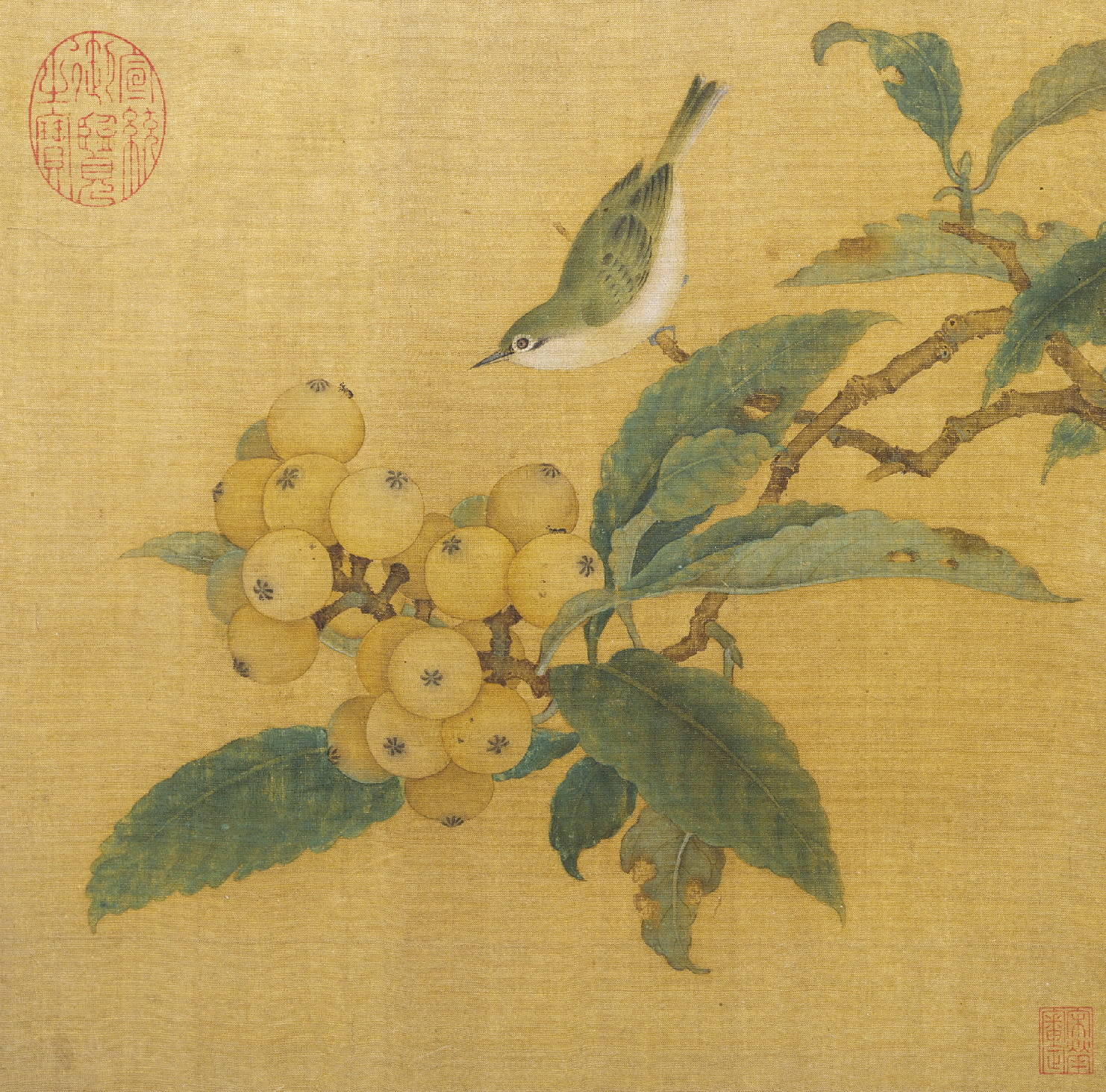 Loquats and Mountain Bird, Chinese painting, album leaf, colors on silk, 28.9 x 29 cm.